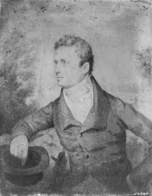 Portrait of eccentric and influential writer, critic, and activist John Neal (1793-1876) by Joseph Wood (1778-1830) in Baltimore, Maryland, USA circa 1819-1821. From the Frick Digital Collections